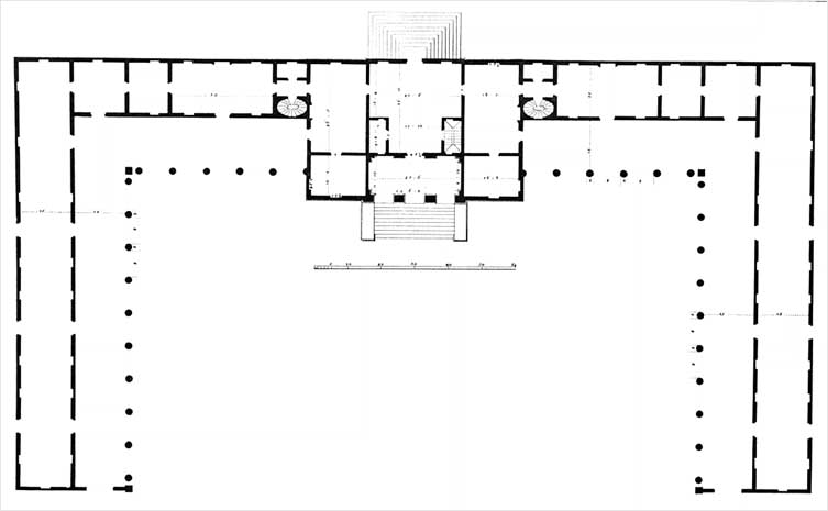 Villa Saraceno in Finale of Agugliaro, Province of Vicenza. Drawing from Ottavio Bertotti Scamozzi, 1778.